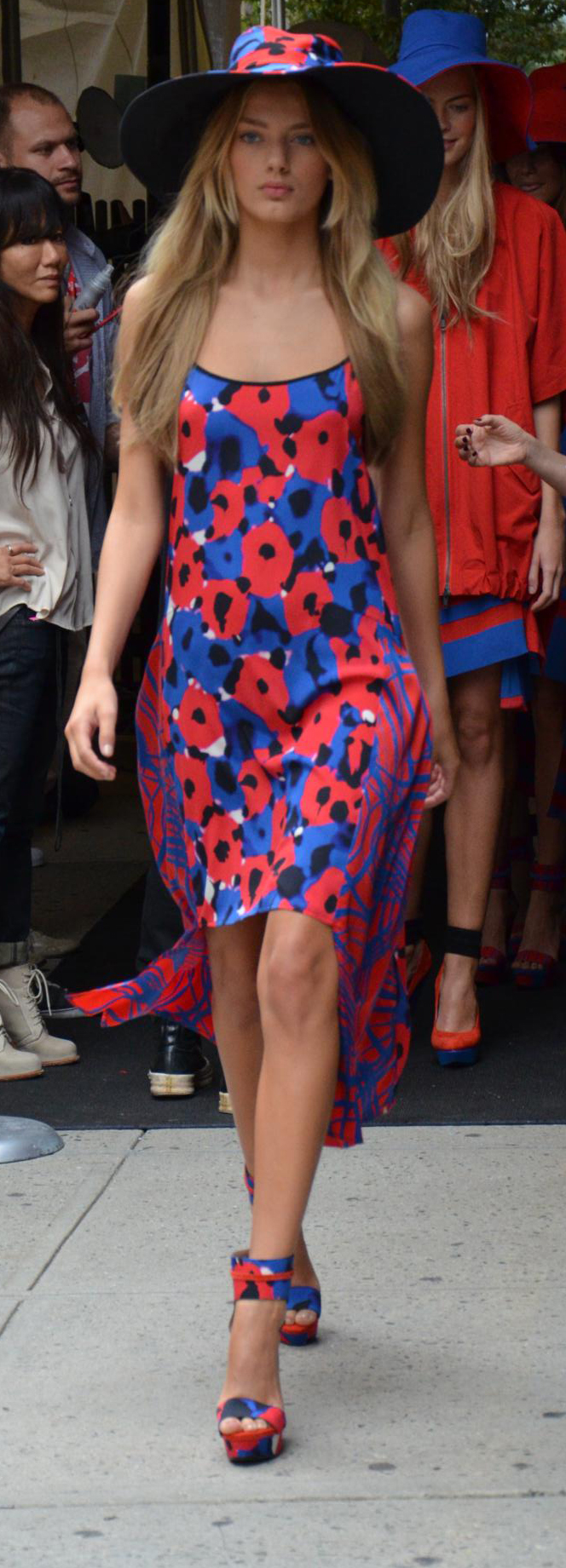 DKNY Spring 2012 (Cropped)